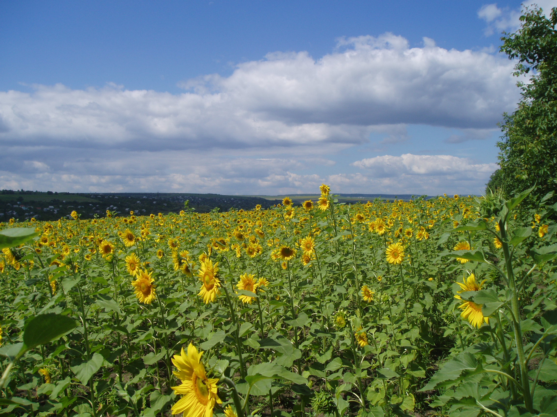 Probably taken on our way back from our trip to Bender-Tiraspol.